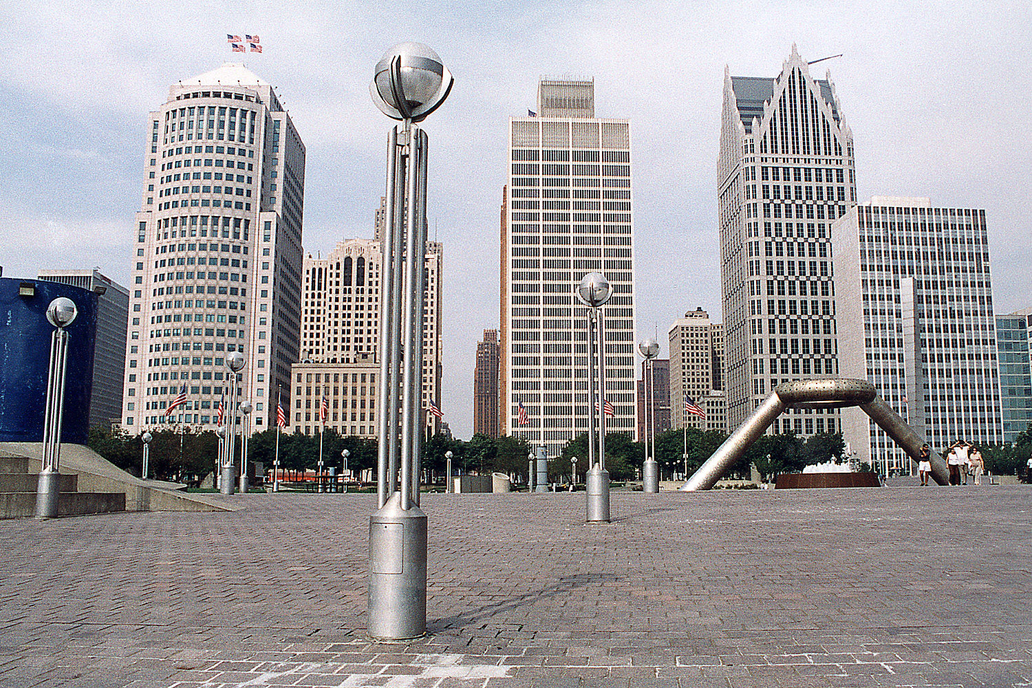 The Detroit skyline from Hart Plaza at the Detroit International Riverfront on the Detroit River, Detroit, Michigan, USA. The plaza is located on the riverfront along Jefferson Avenue at the foot of Woodward Avenue.